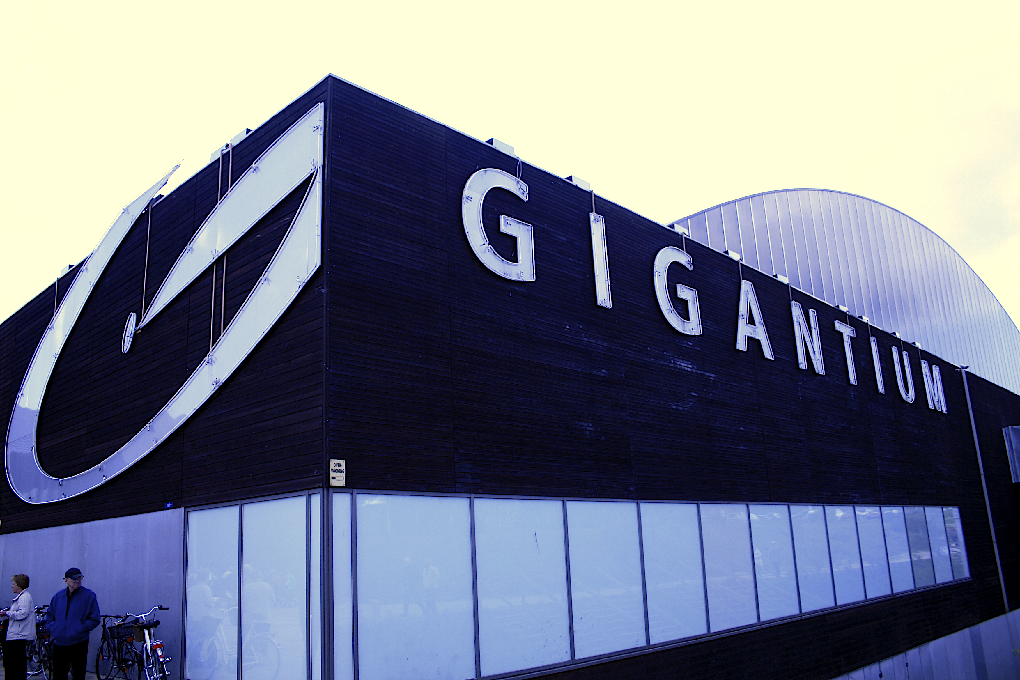 Gigantium seen from the front.